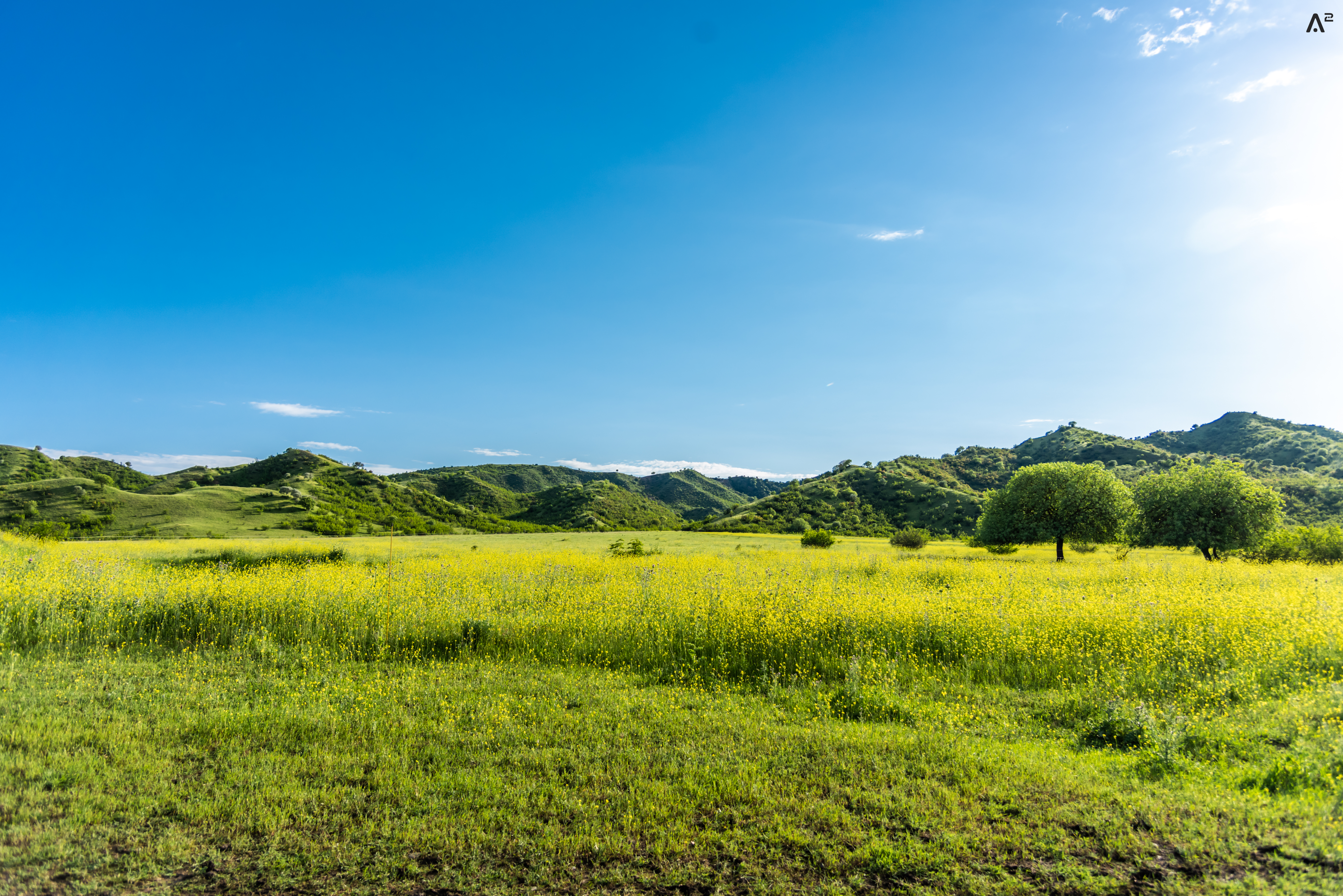 Vashlovani National park